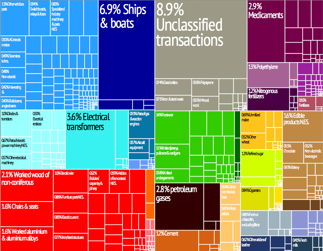 Export Trading Treemap. From MIT/Harvard Atlas of Economic Complexity